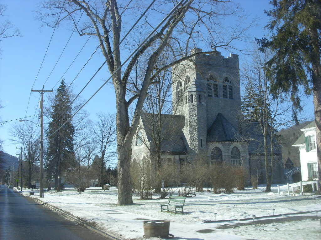 Jay Gould Memorial Reformed Church 021309 182